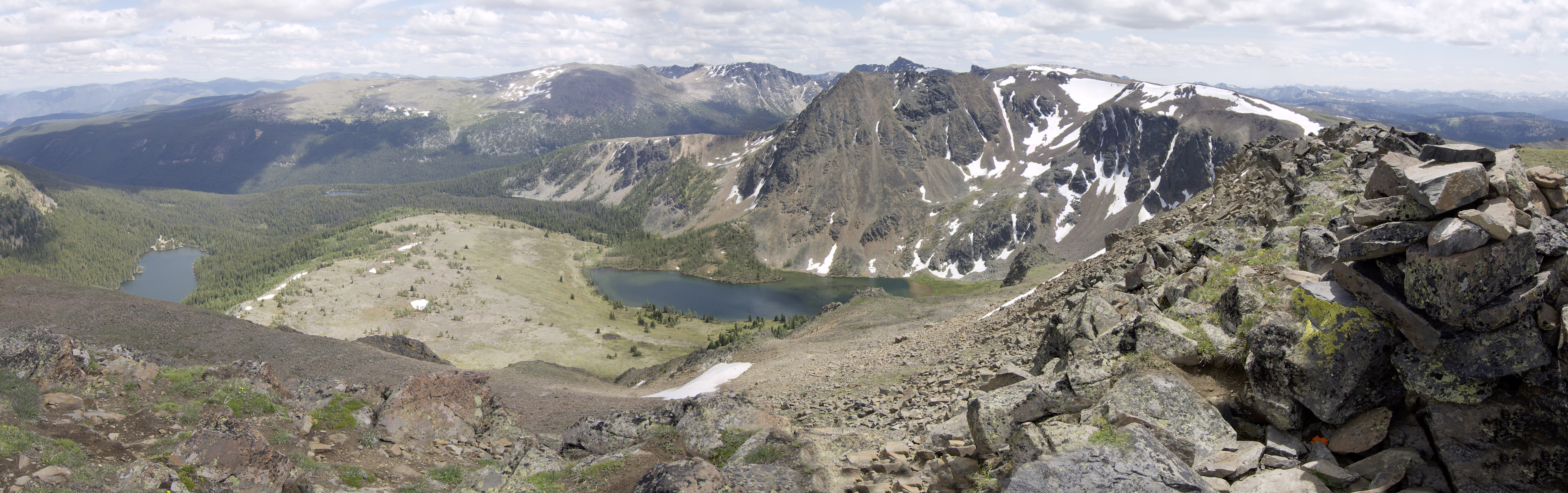 I took this photo. See here.